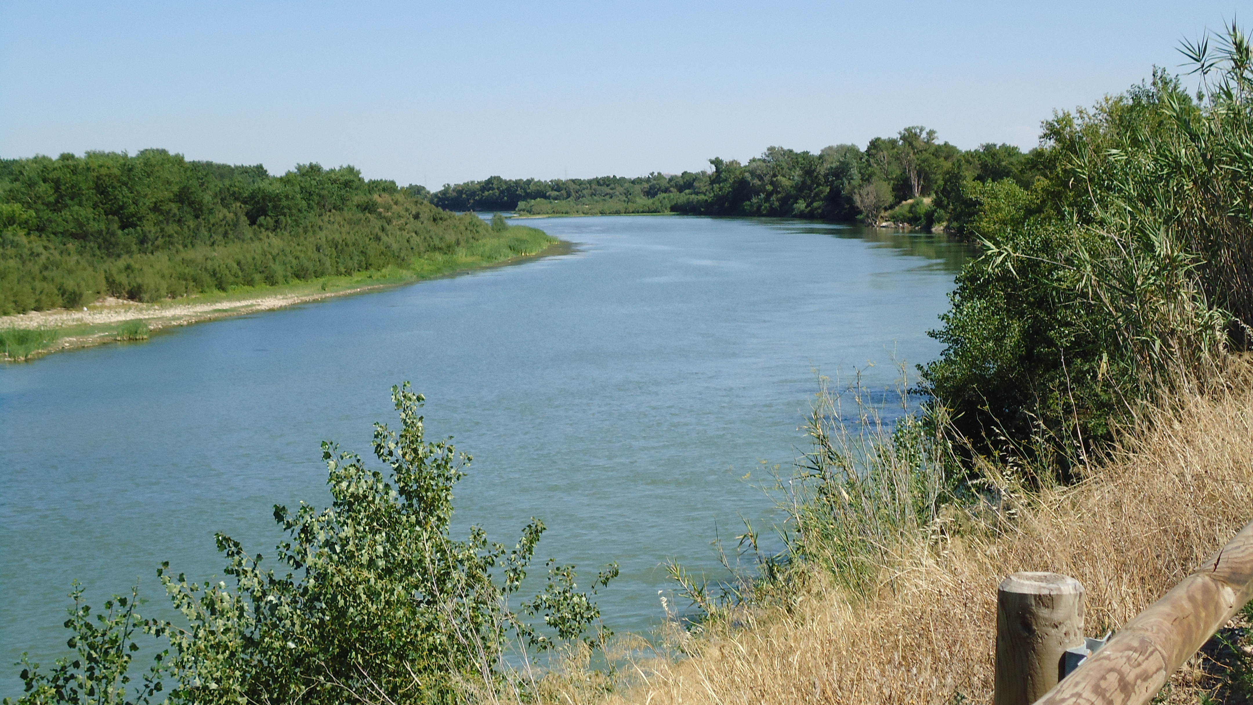 El GR al seu pas per l'Ebre Mig